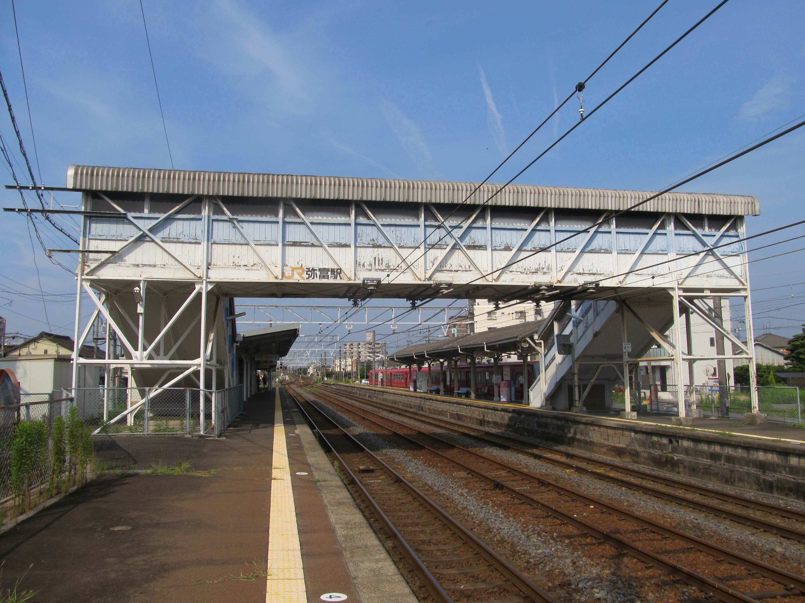 The JR Central Kansai Line and Nagoya Railroad Bisai Line platforms at Yatomi Station in Aichi Prefecture, Japan